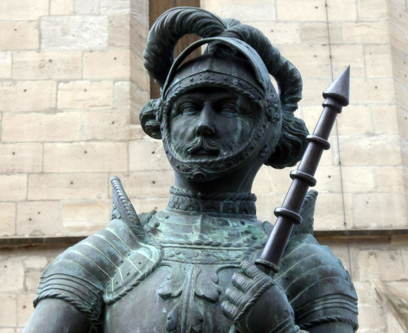 Statue of Ulrich, duke of Württemberg (1487-1550) in Balingen city centre.